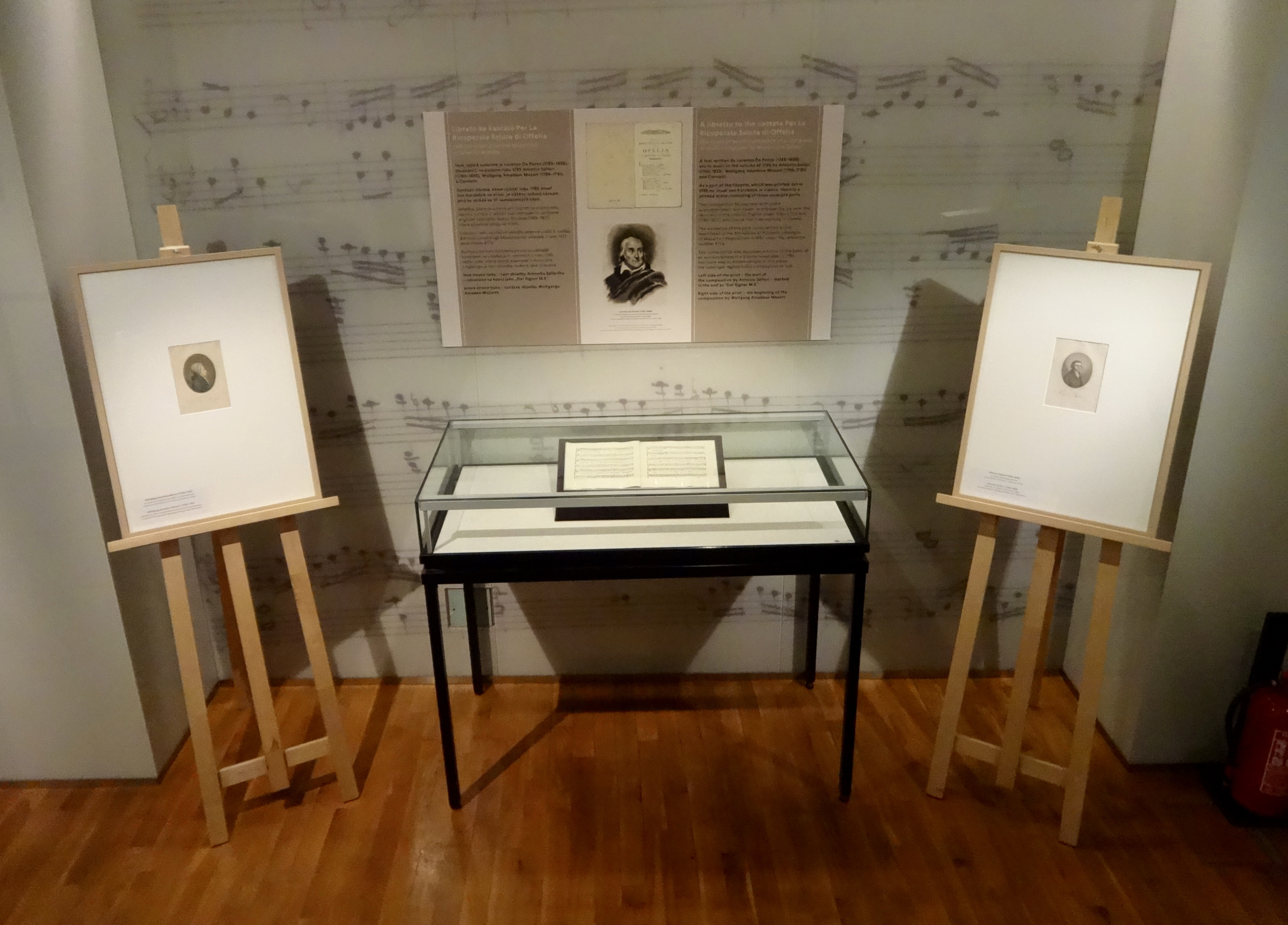 Obscure printed score, previously thought lost, discovered in the archives of the Czech Museum of Music in Prague (2016)